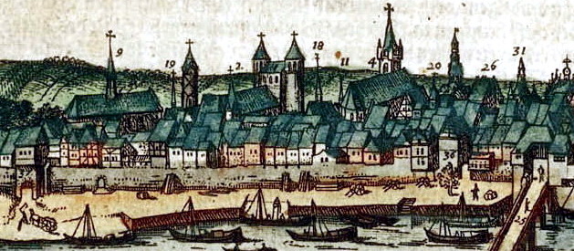 Detail of a panorama of Maastricht, Netherlands, around 1570. Bird view panorama from the east, based on a drawing by Simon de Bellomonte of ca. 1570, published in 1575 in Part 2 of Braun & Hogenberg's atlas of world cities Civitates orbis terrarum. Here: the riverside section between Onze-Lieve-Vrouwepoort (Our Lady's Gate) and the Meuse bridge, also known as Het Bat.